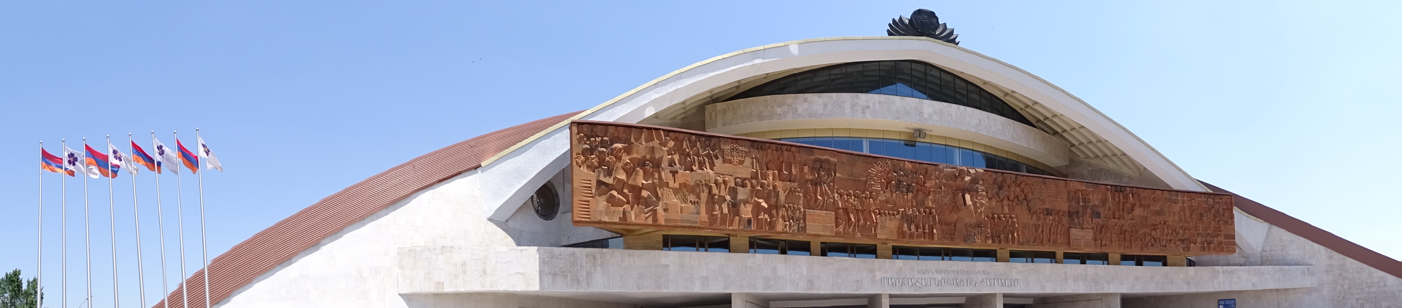 Karen Demirchyan Sports and concerts complex in Yerevan.